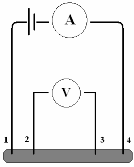 Schematic of a four-point resistance measurement.